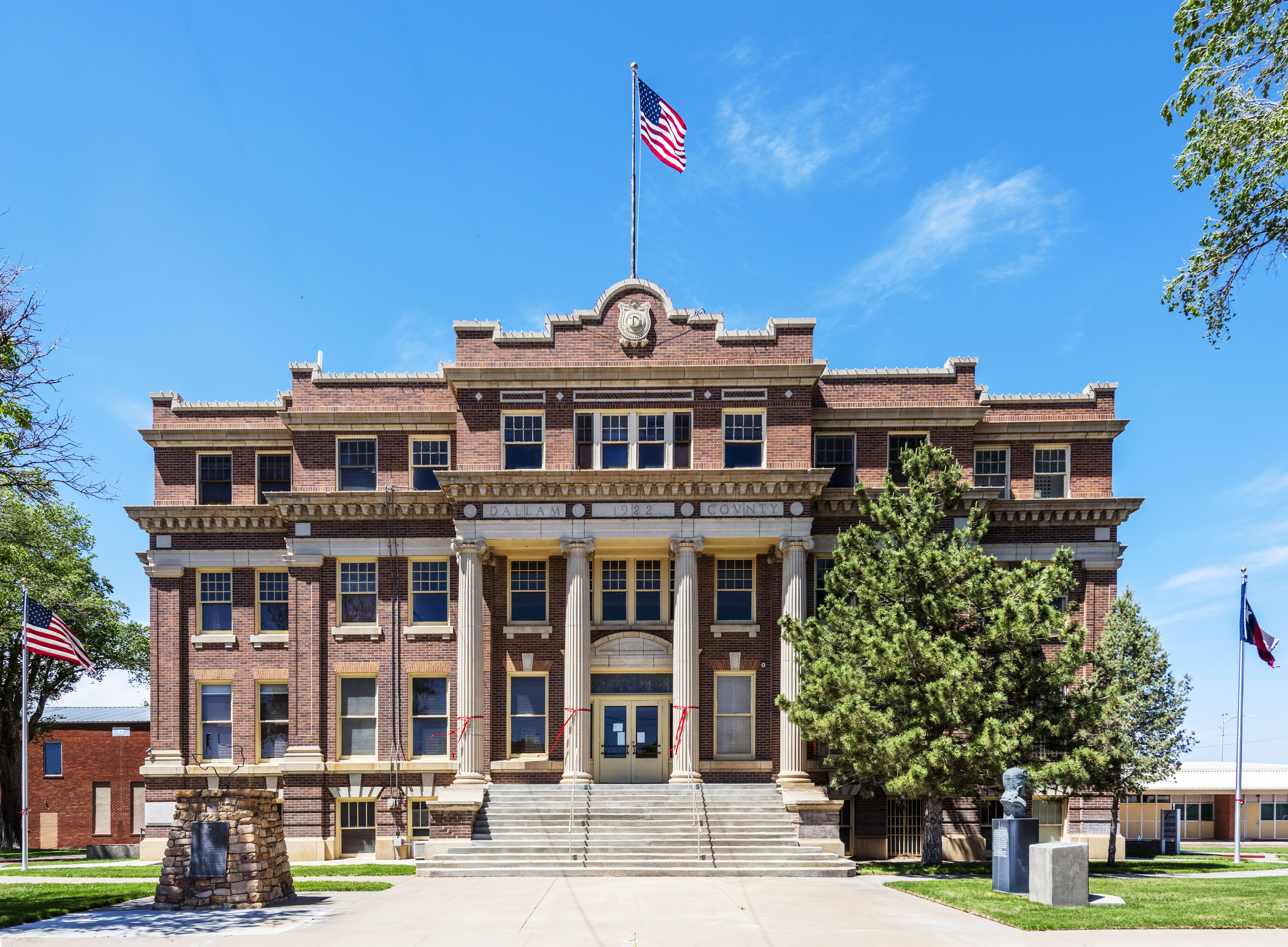 Image of the Dallam County, Texas courthouse located in Dalhart, Texas. Taken in May 2020.